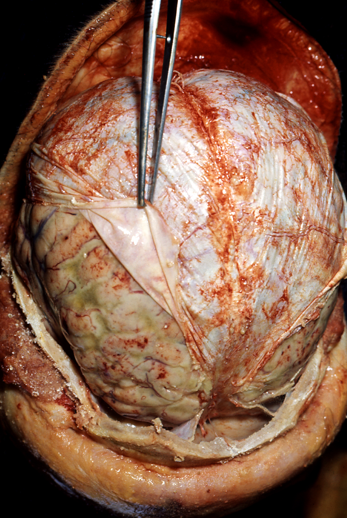 Autopsy: Brain surrounded by pus (the yellow-greyish coat around the brain, under the dura lifted by the forceps), the result of bacterial meningitis. A brain autopsy demonstrating signs of pneumococcal meningitis in an alcoholic patient. The forceps (center) are retracting the dura mater (white). Underneath the dura mater are the leptomeninges, which appear to be edematous and have multiple small hemorrhagic foci (red).